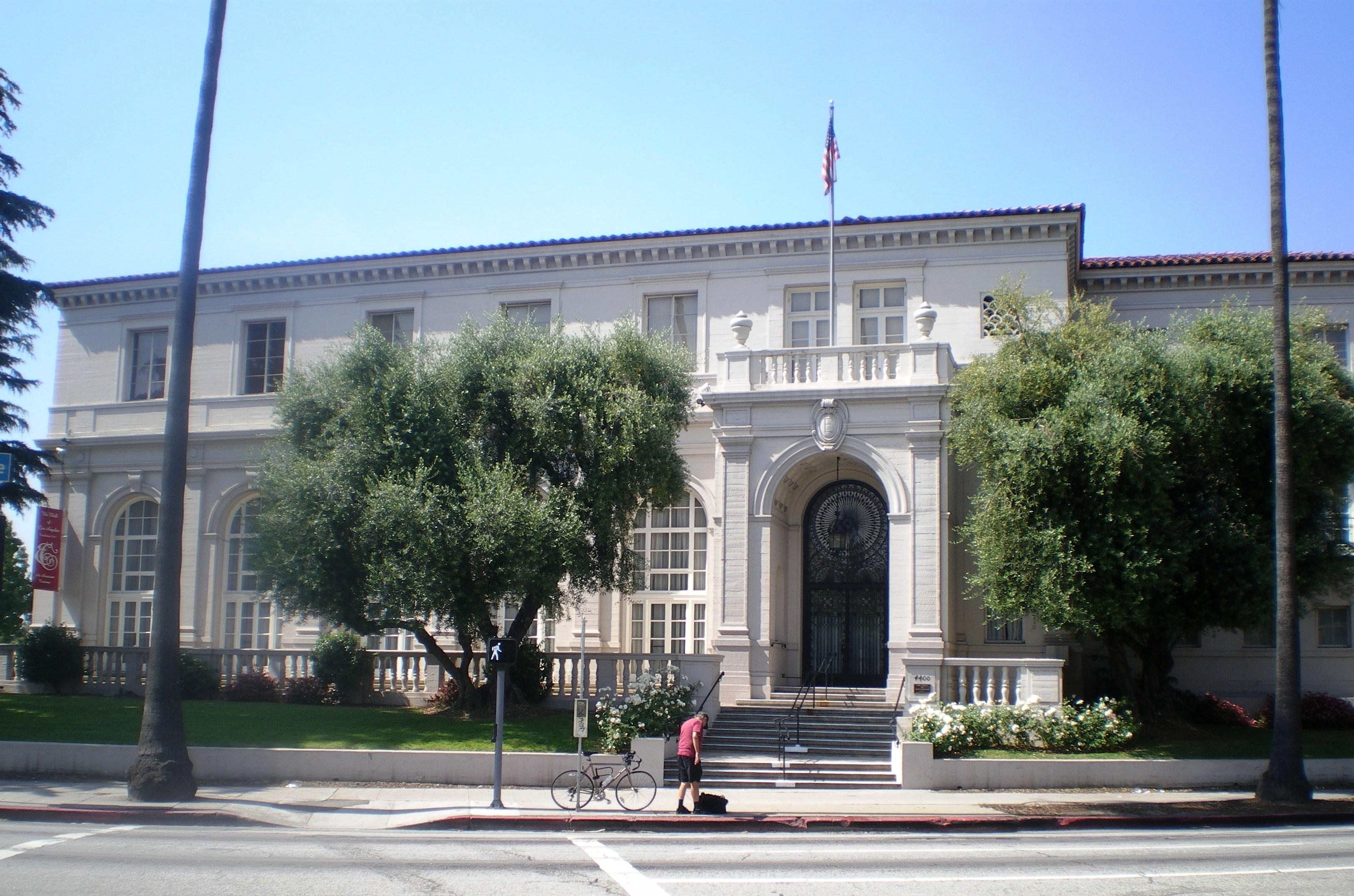 Ebell of Los Angeles (women's club) — at 743 S. Lucerne Boulevard and Wilshire Boulevard, Mid-City, Los Angeles, California. Built 1927, the third Ebell of Los Angeles clubhouse, and a Los Angeles Historic-Cultural Monument, and on the National Register of Historic Places in Los Angeles.